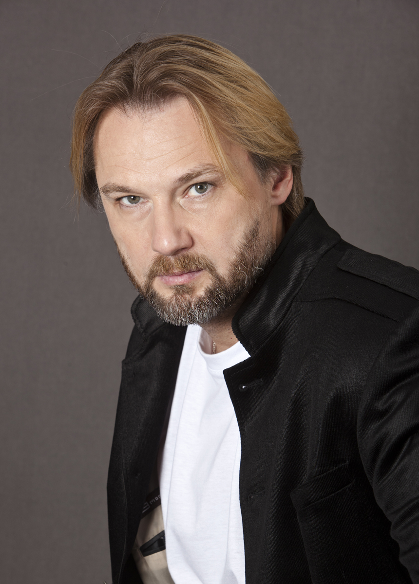 Photo of Alexander Ivashkevich